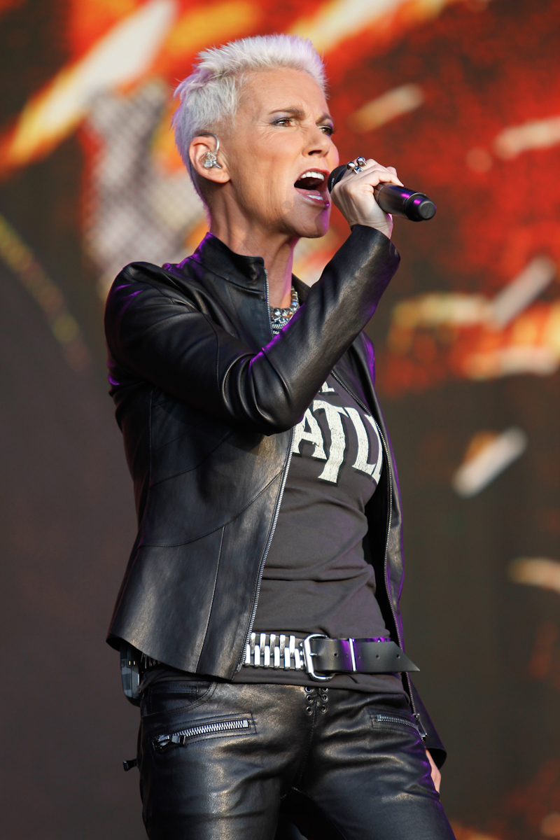 Marie Fredriksson performing live on stage.